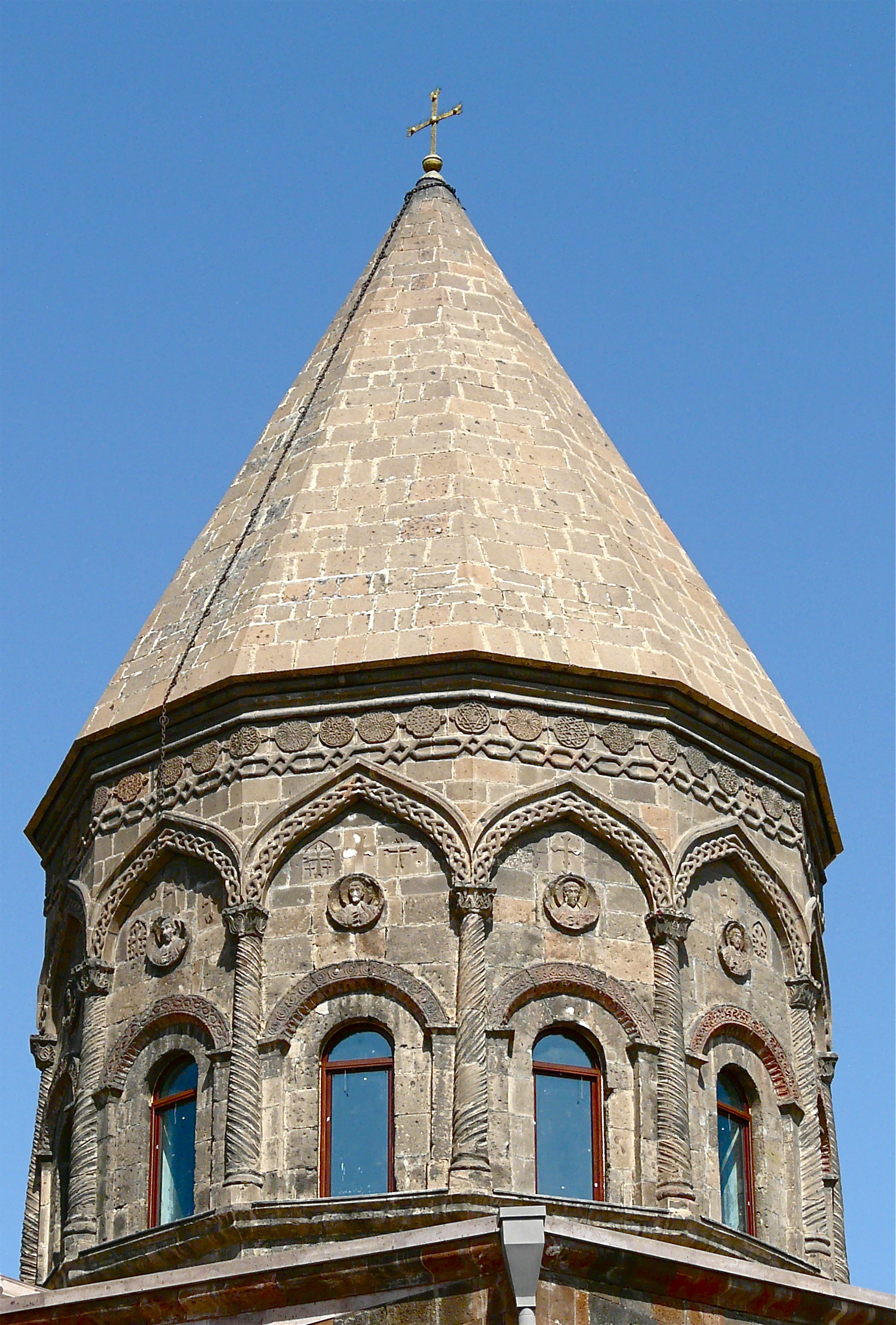 Etchmiadzin Cathedral (drum), Etchmiadzin, Armenia.